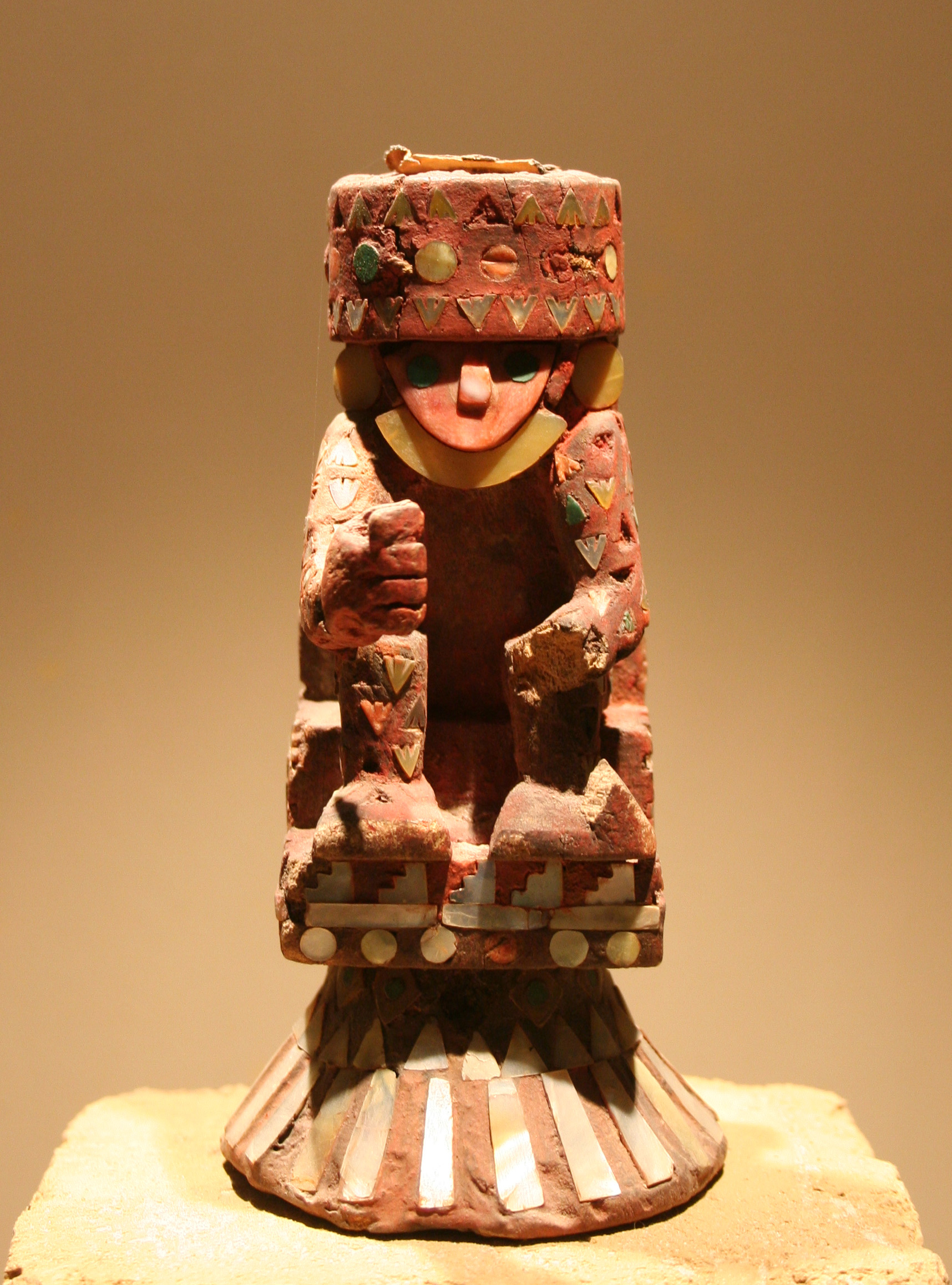 Attachment of a spear made by painted softwood with inlays of nacre, spondylus seashell, turquiose and stone; 12 × 6 cm; Chimú (1200-1470 AD); exact provenance unknown, perhaps northern peruvian coastal region; Roemer- und Pelizaeusmuseum, Hildesheim, accession number V. 9443